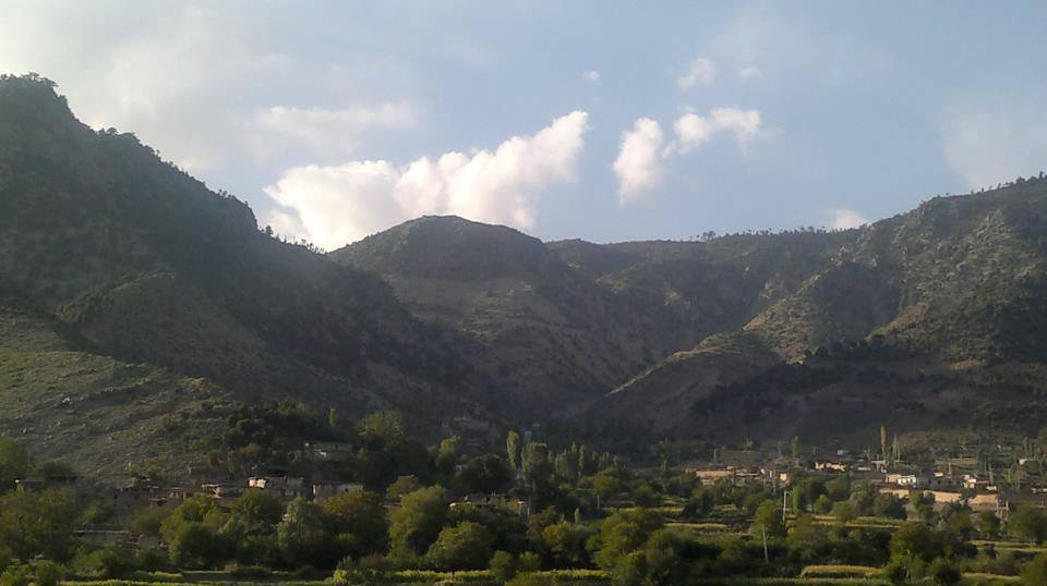 This is taken by me in Tari Mangal, Pakistan